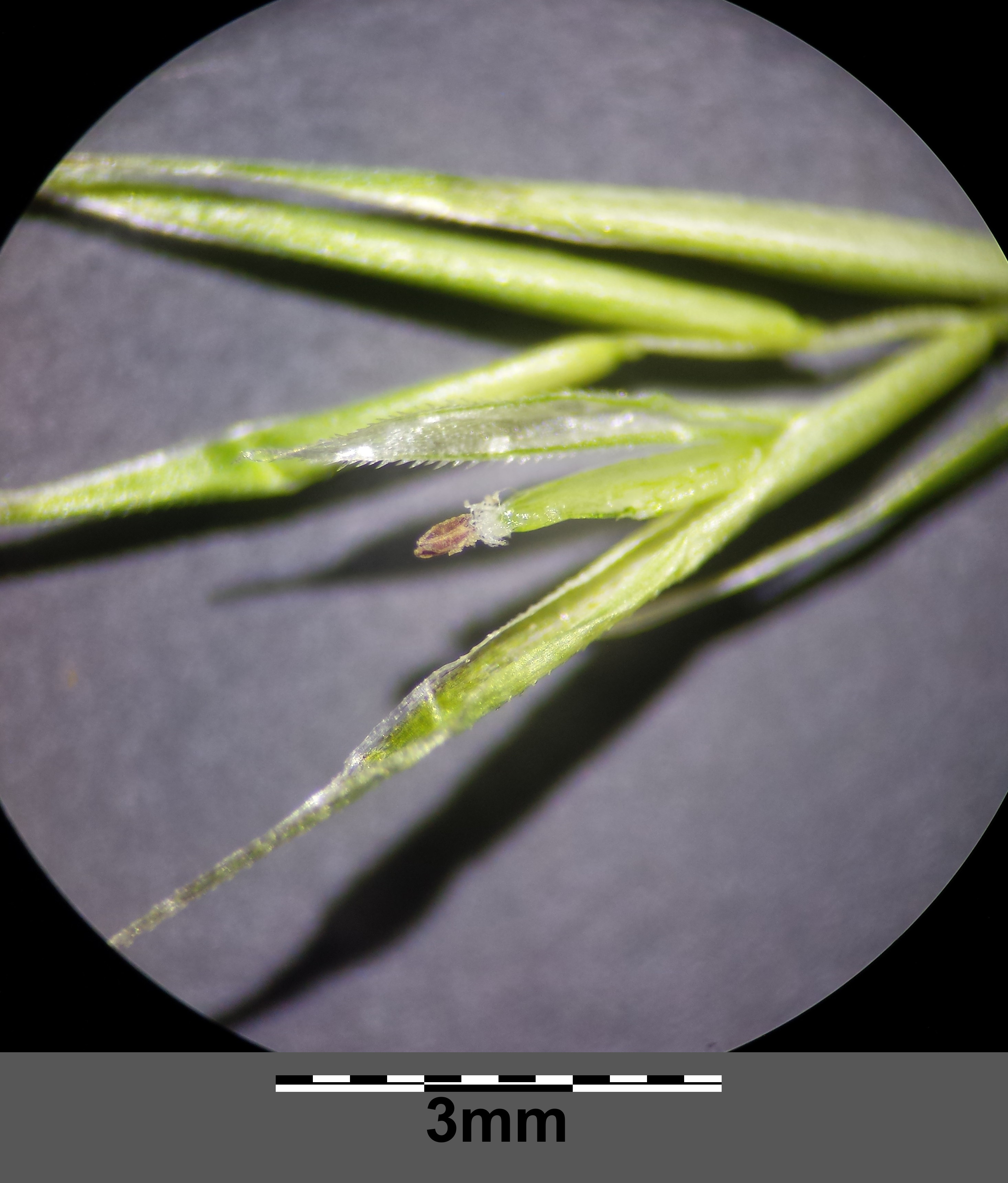 Spikelet, flower with one stamen Taxonym: Vulpia myuros ss Fischer et al. EfÖLS 2008 ISBN 978-3-85474-187-9 Location: Floridsdorf rail station, Vienna-Floridsdorf - ca. 160 m a.s.l. Habitat: ruderal area